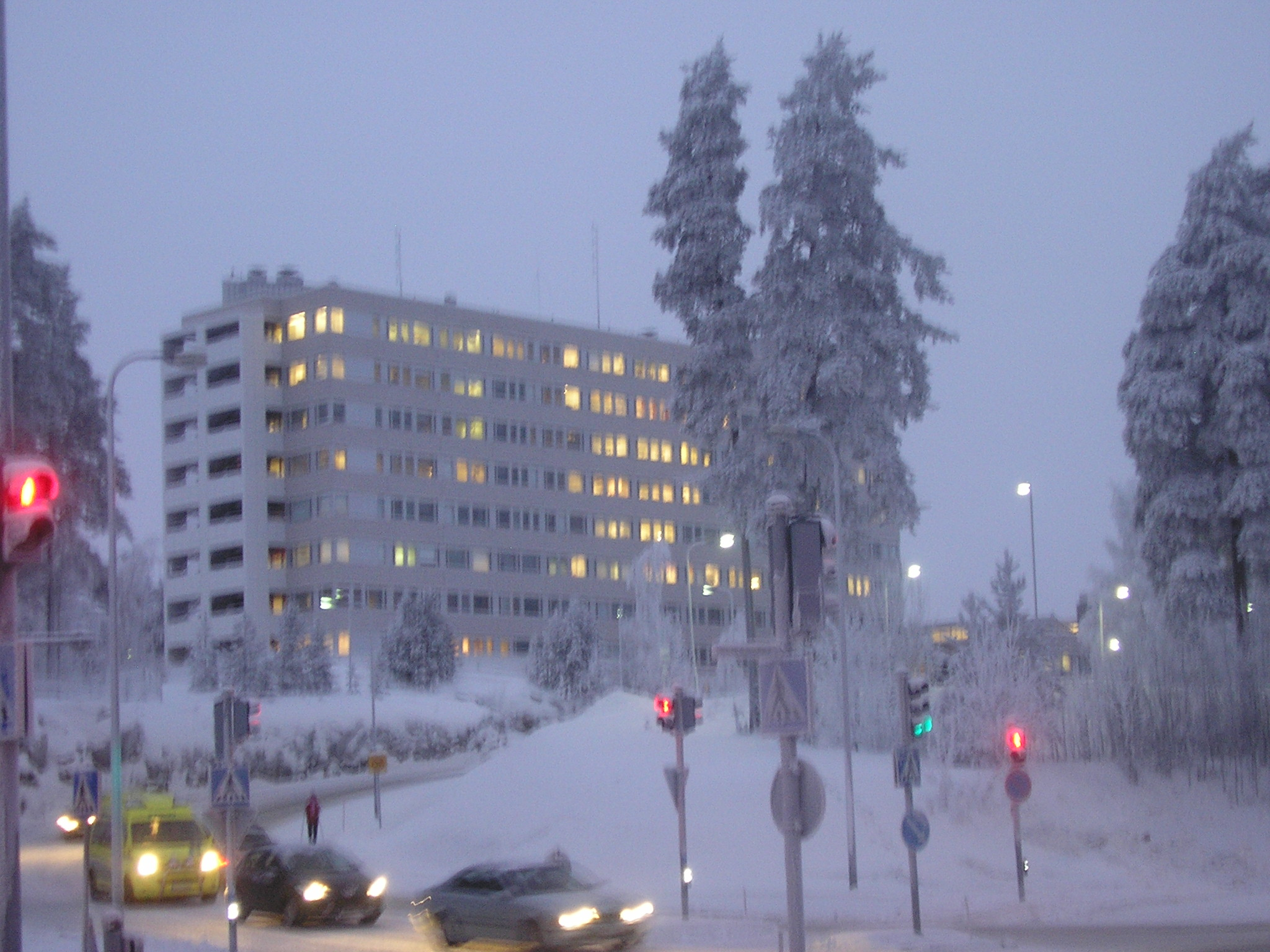 Central hospital of Kainuu in Kajaani